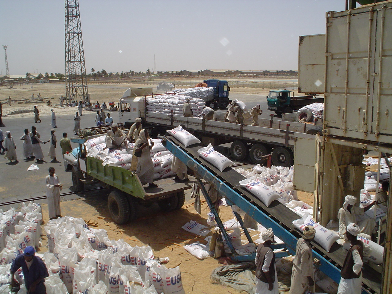 Caption: Complex logistics for food aid to Darfur – The provision of food commodities, delivery to the country in need, and distribution to beneficiaries is complex process. USAID is the largest donor of food assistance to Darfur, and with a turn-around time of 14 days, from initial discussions with the U.S. Department of Agriculture (USDA) to vessel loading, this contribution is one of the quickest in USAID history.